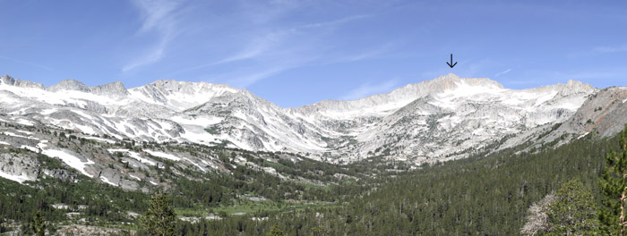 Panoramic Image taken of the Hall Natural Area with Mt. Conness under the black arrow...the highest point in this photo is actually a false summit...the real summit is behind and to the right.